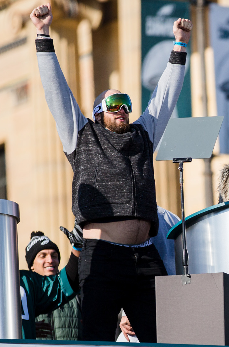 February 8, 2018 Philadelphia, PA